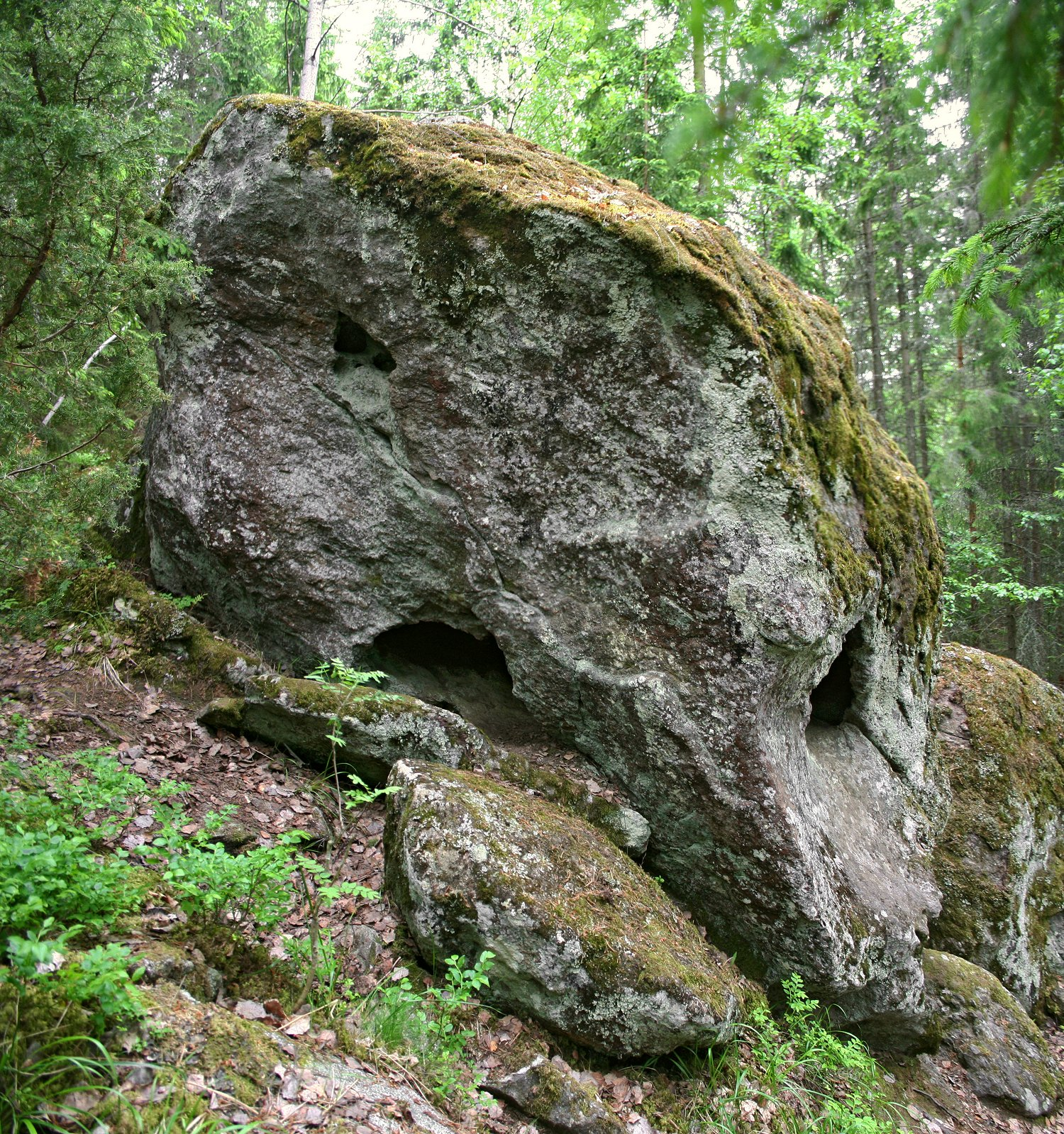 Second biggest tafon in Findlad; situated Sarkola in Nokia